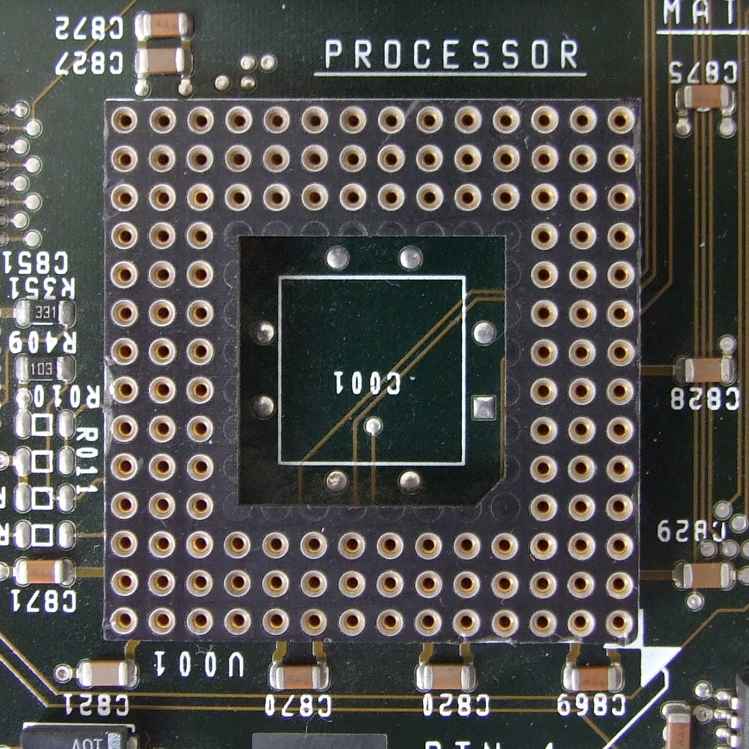 CPU socket for i386DX (PGA, LIF).